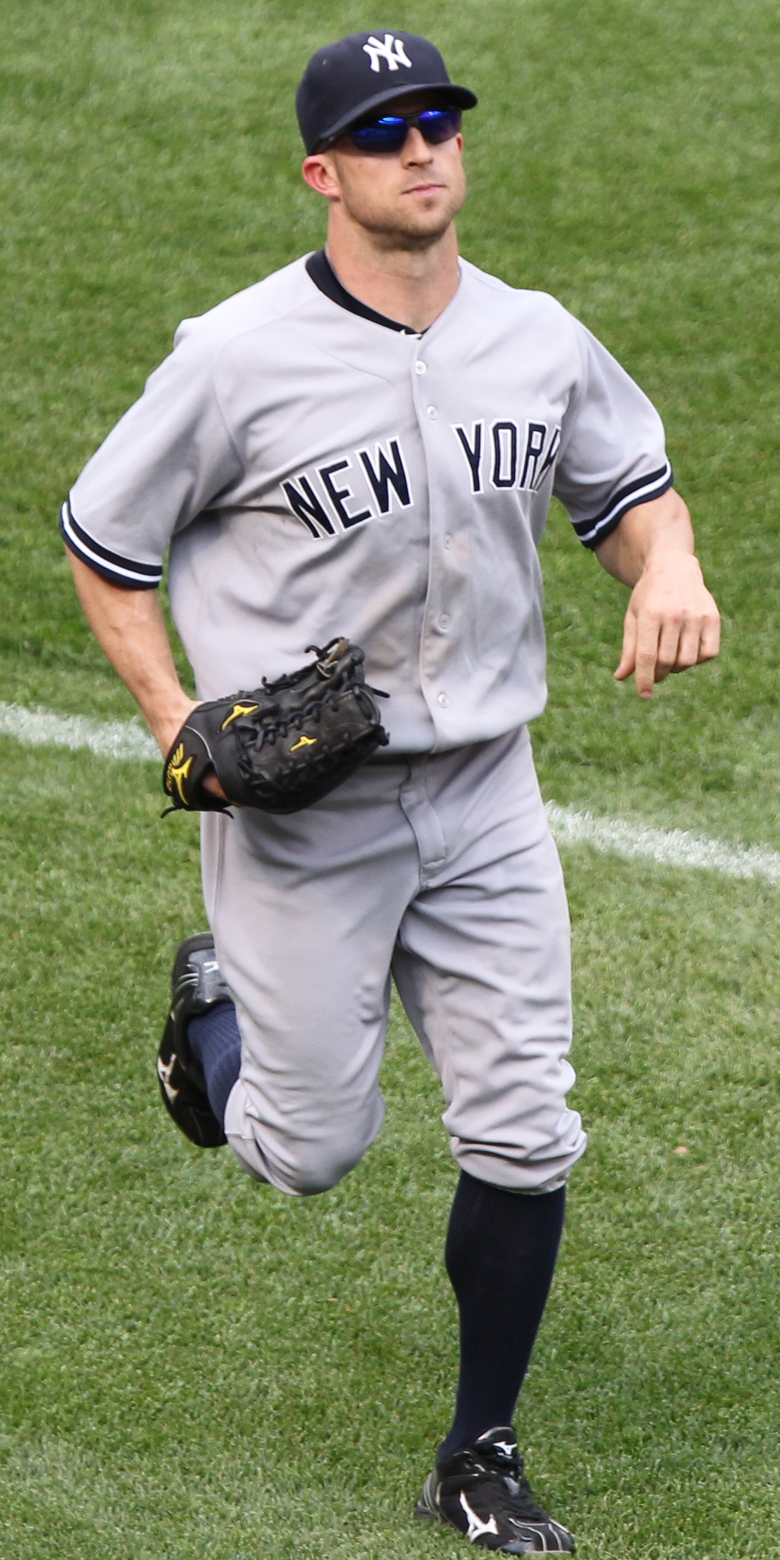 Brett Gardner during a game between the New York Yankees and Baltimore Orioles on April 24, 2011